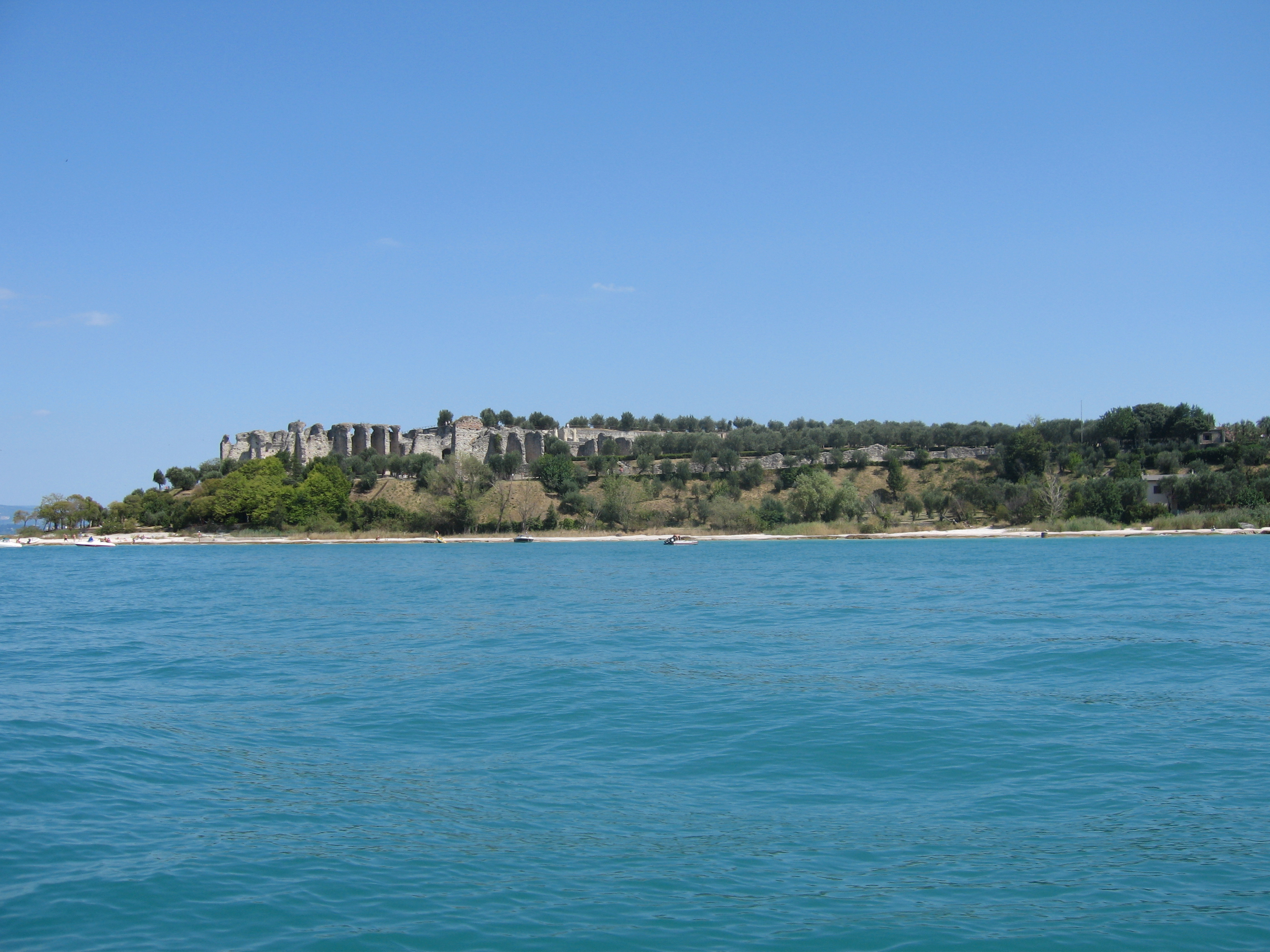 Ruins of the Ancient Roman villa at Sermione peninsula on Lake Garda in Italy